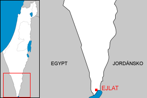 Localization of Eilat within Israel.